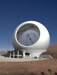 Building, dome and mirrors of the future Cerro Chajnantor Atacama Telescope (Cornell Caltech Atacama Telescope). Computer rendering.